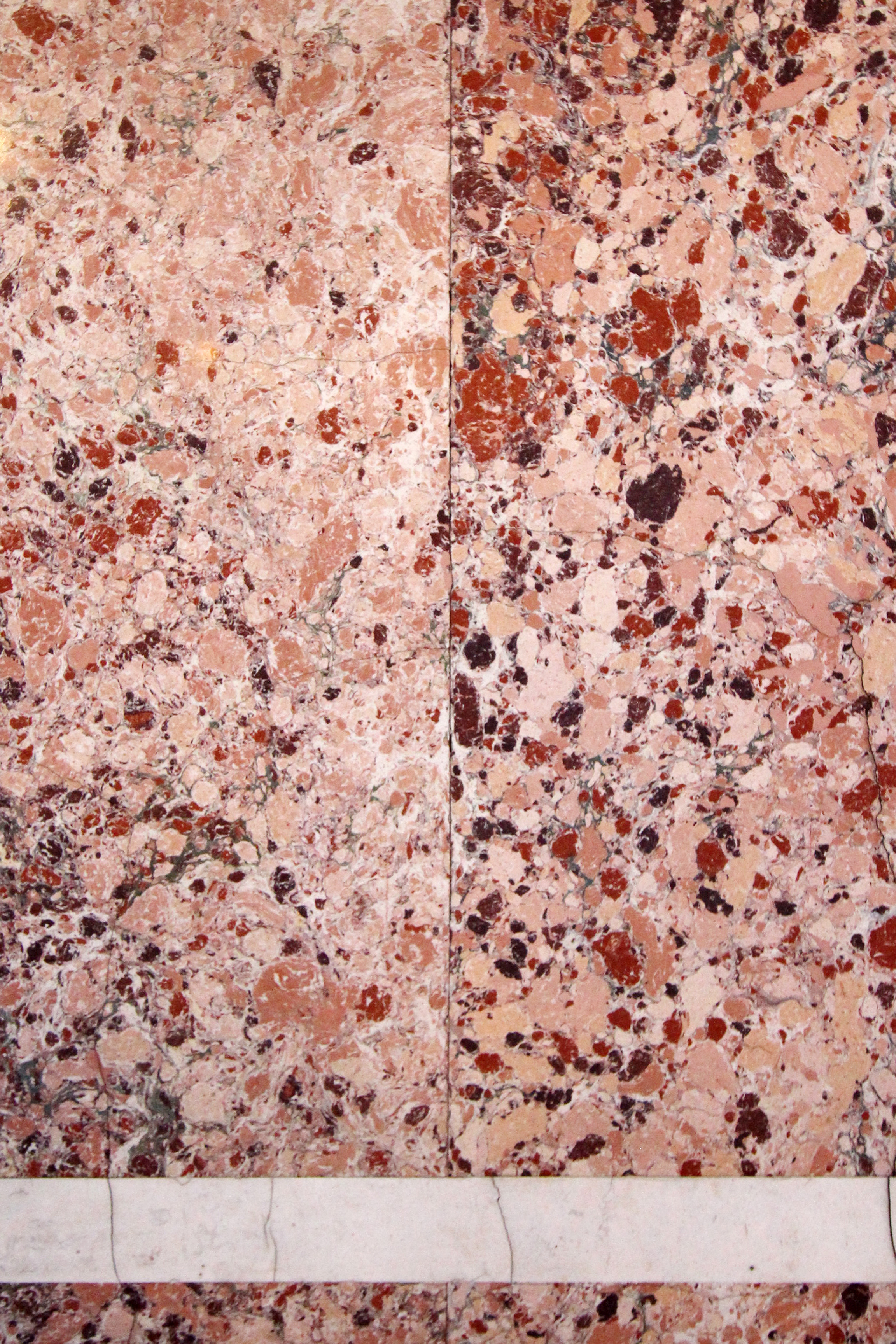 Deutschmeisterpalais/Palais Erzherzog Wilhelm, OFID Dieses Bild wurde anlässlich des österreichischen Tags des Denkmals 2014 in Wien eingereicht.